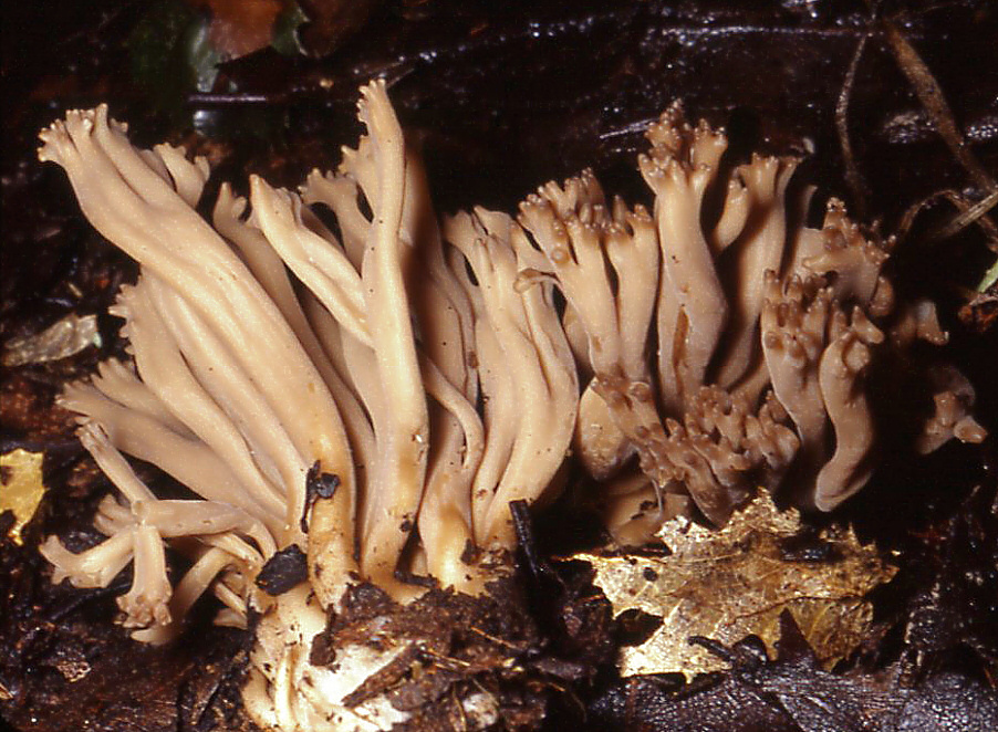 Clavulinopsis umbrinella (Sacc.) Corner Image location: Bolinas Ridge, Marin Co., California, USA These appeared to conform to the brief description in MD including the round spores and common base. An earlier Observation by Darvin DeShazer also helped. Used references: Mushrooms Demystified For more information about this, see the observation page at Mushroom Observer.